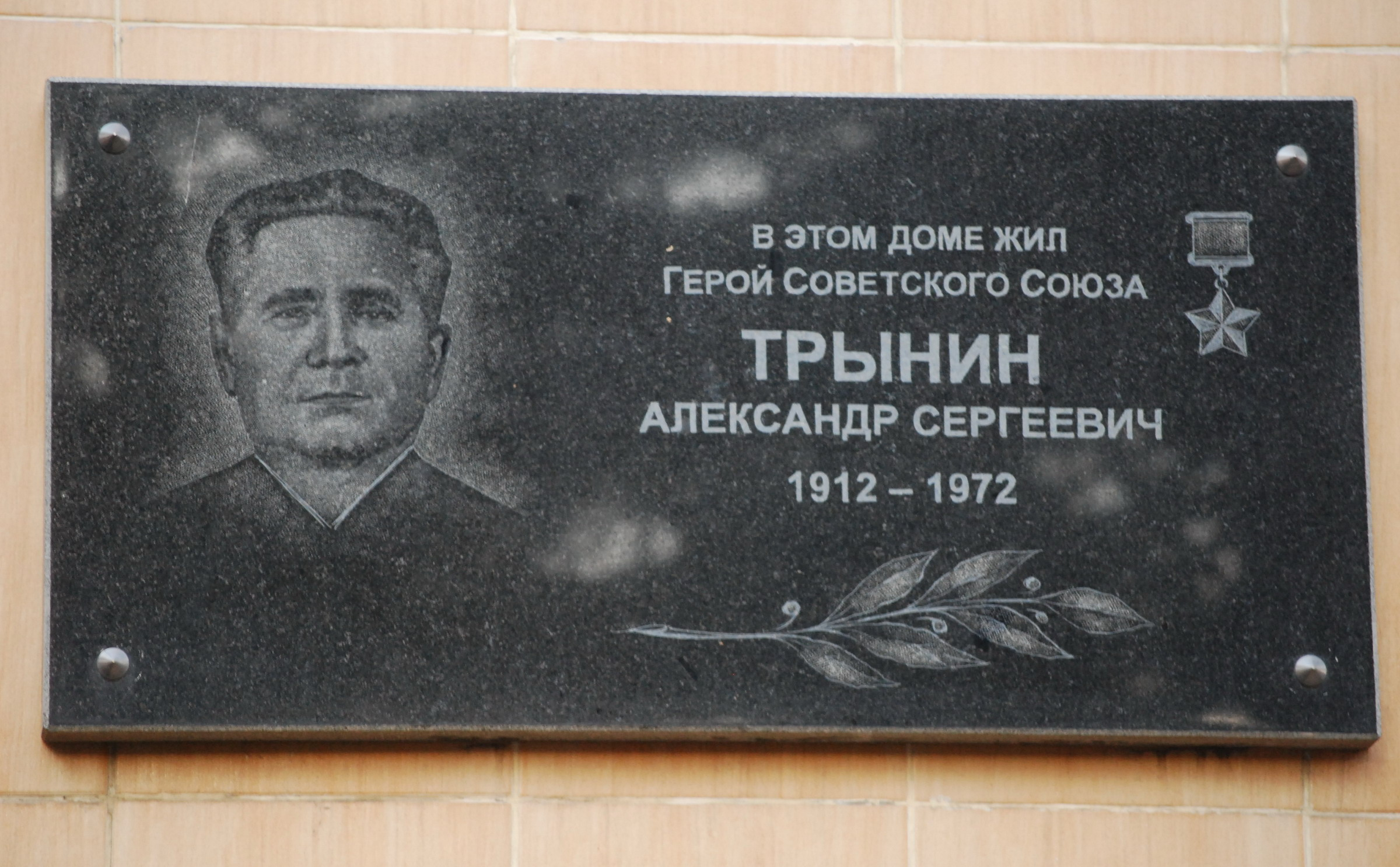 The commemorative plaque about hero of USSR A. S. Trinin (Simferopol, Ukraine).